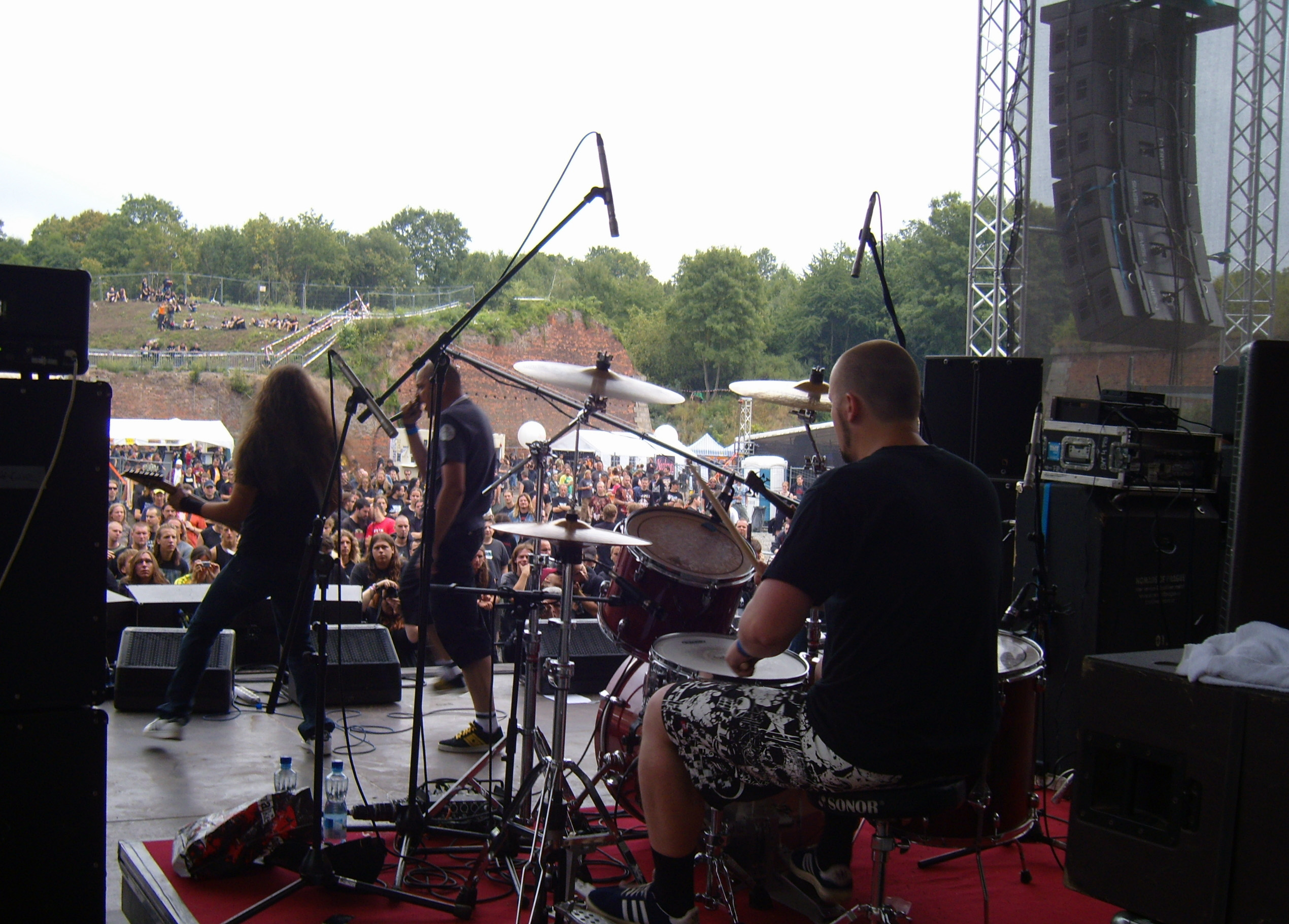 Grenouer on stage